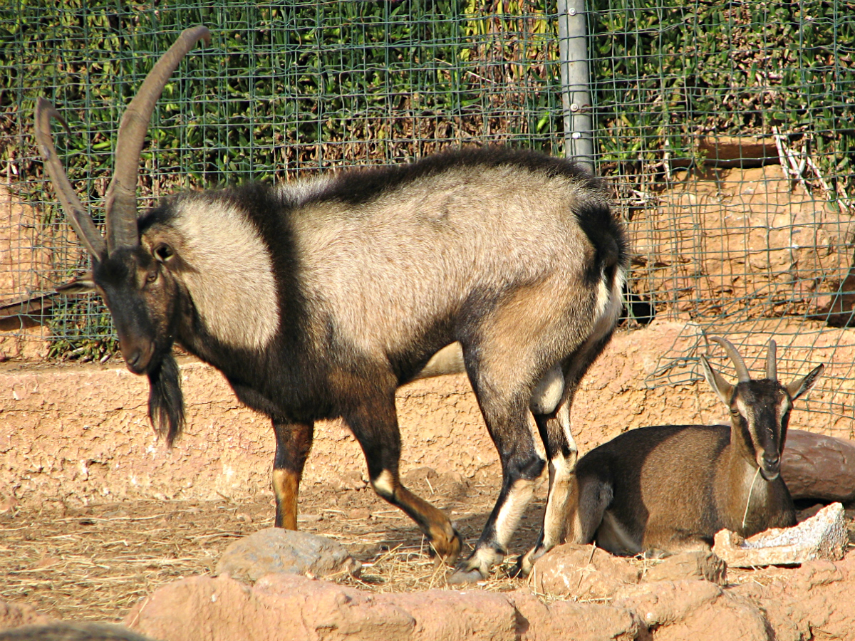 Male and young female Cretan ibex in captivity.